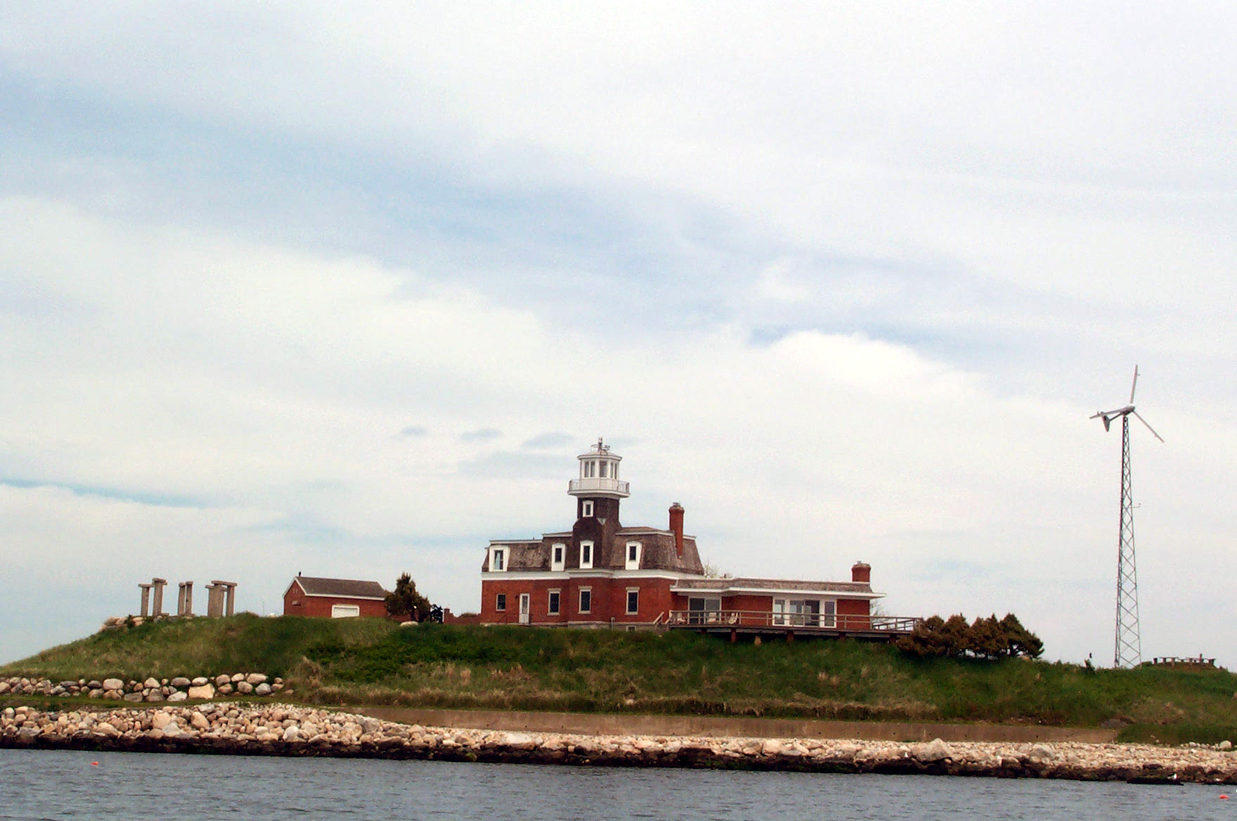 A photo of North Dumpling Island, currently owned by Dean Kamen, taken in June 1999. The main building was originally the North Dumpling Island Lighthouse.